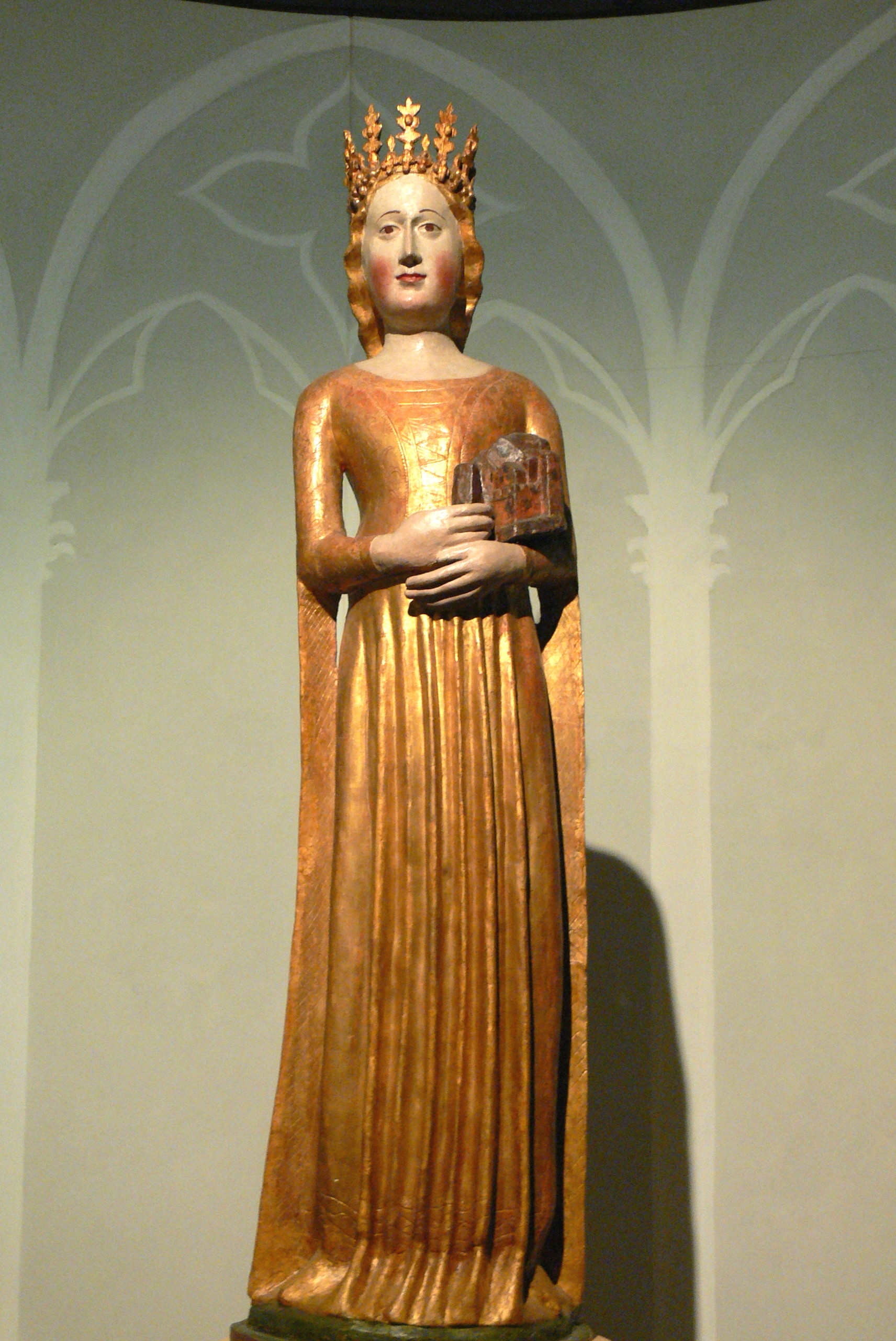 Udine, Italy. Palazzo Patriarcale - Museo Diocesano: Statue of Saint Euphemia ( 14th century ).